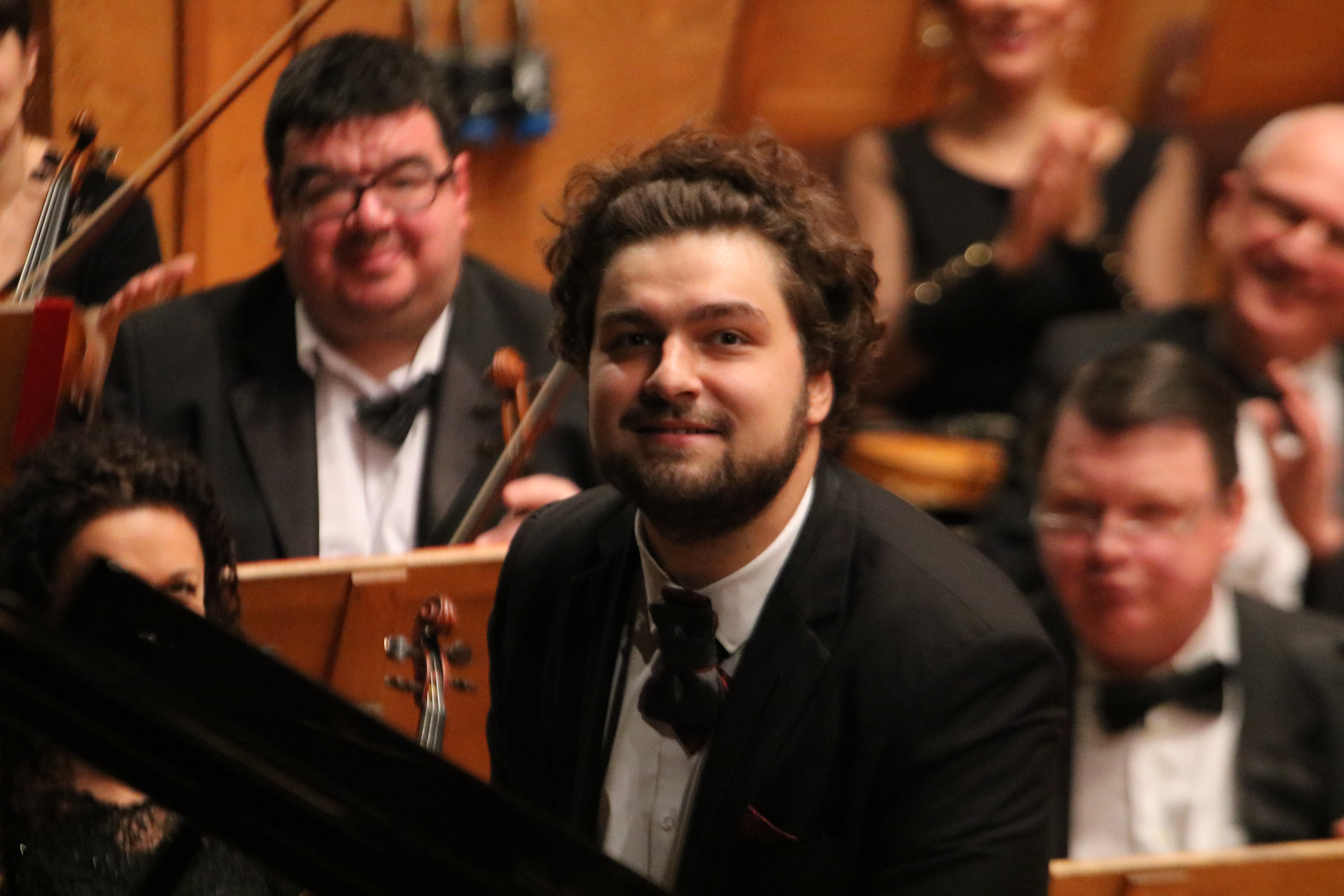 Lucas Geniusas in the concert hall "Bulgaria", Bulgaria - Sofia, 01/17/2020